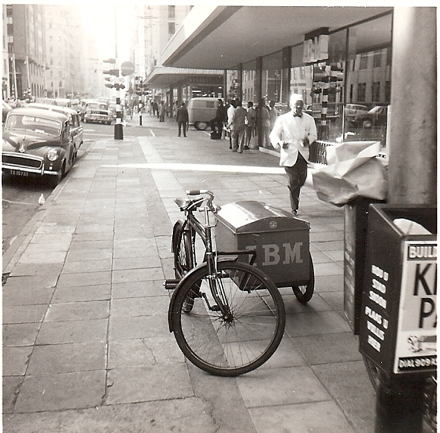 IBM delivery tricycle in front of IBM building, Johannesburg, South Africa. I took this photo while visiting Johannesburg in July 1965.